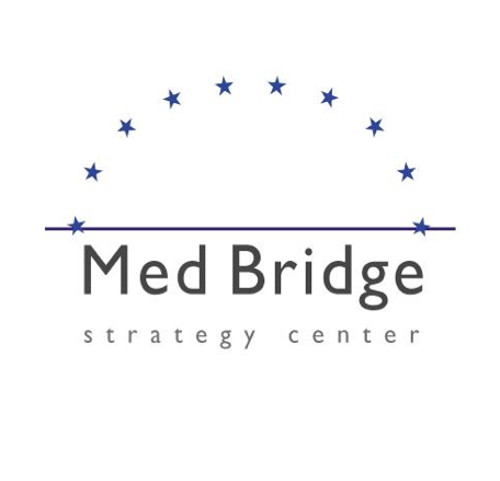 Logo of the MedBridge Strategy Center